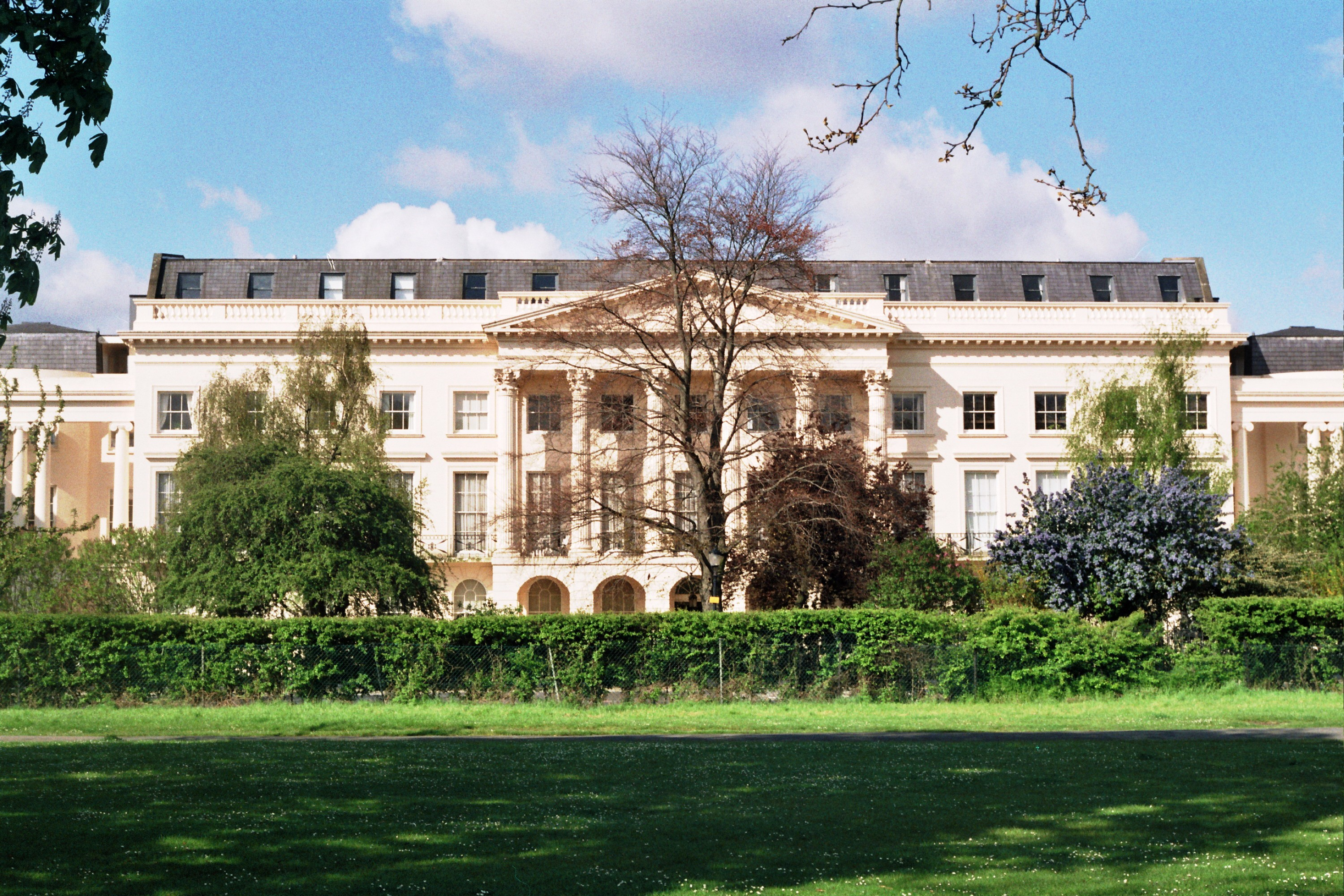 Image originally published in Queer Places: Retracing the Steps of LGBTQ people around the World Authored by Elisa Rolle